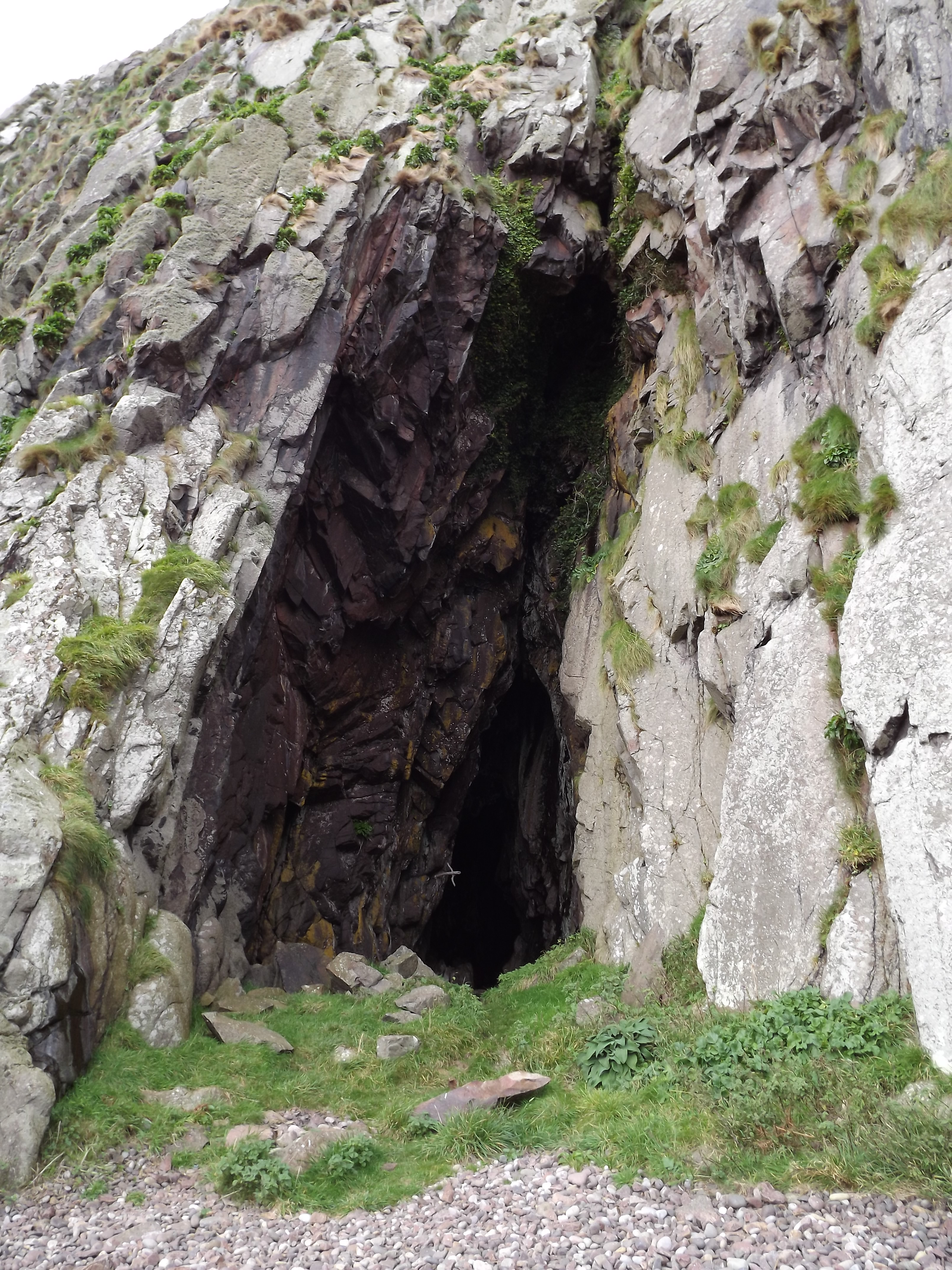 Eigth cave on Davaar Island